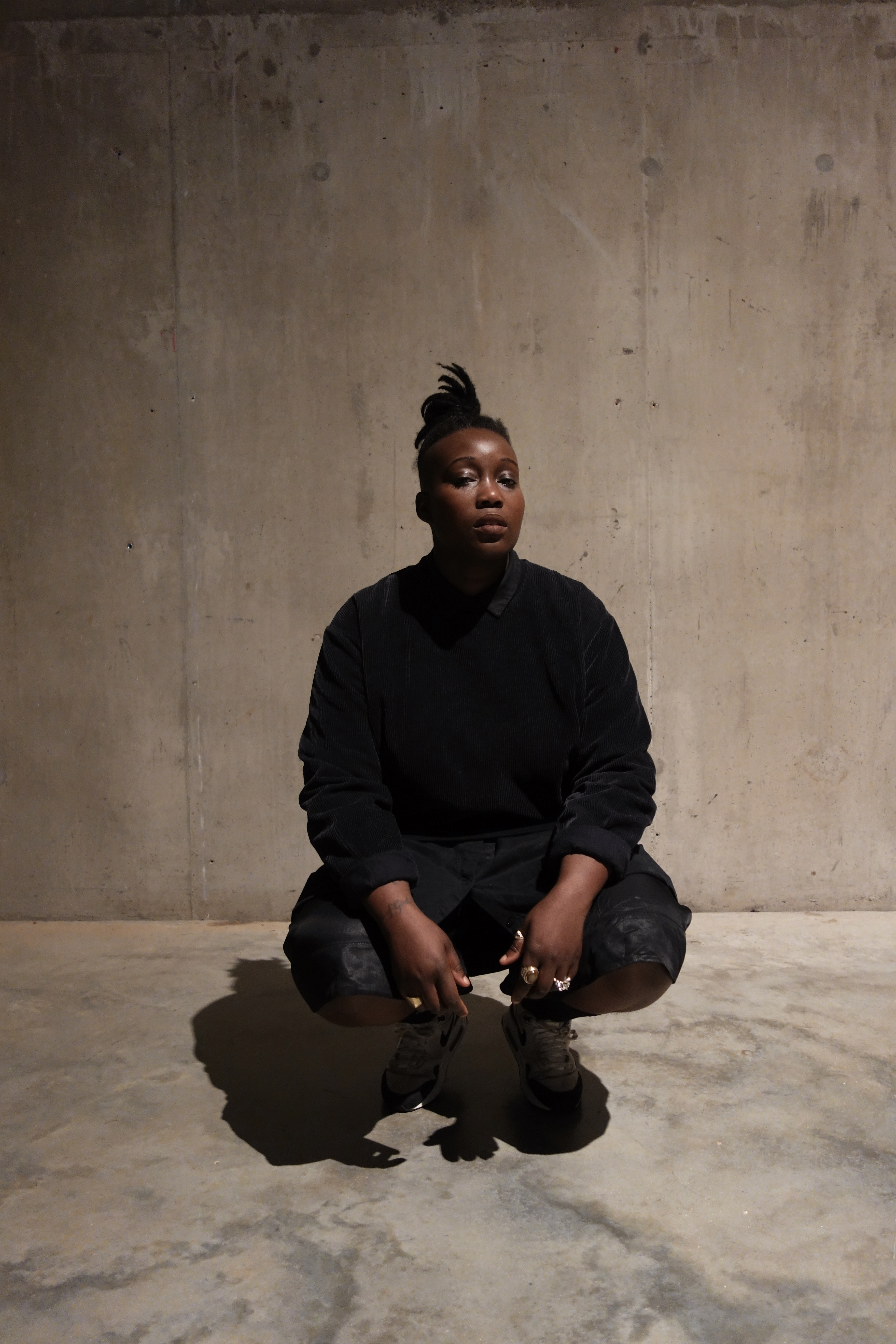 Tawiah